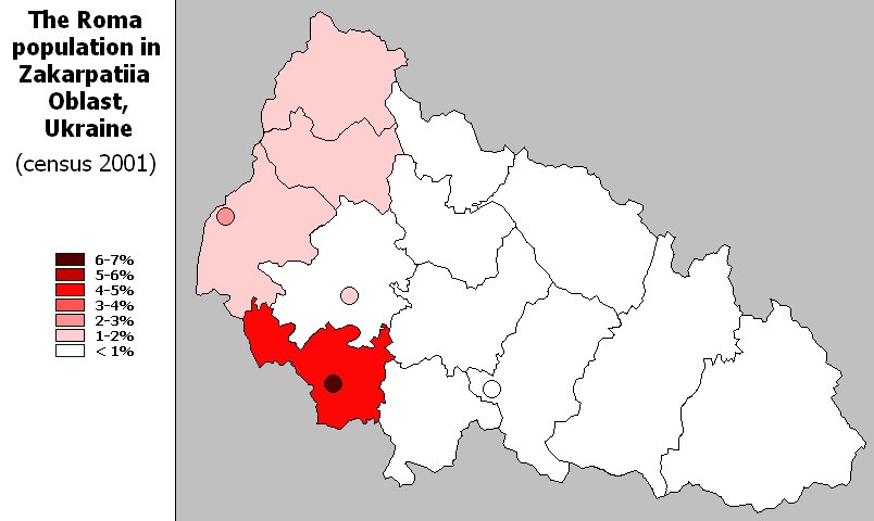 Roma minority in Transcarpathia, Ukraine